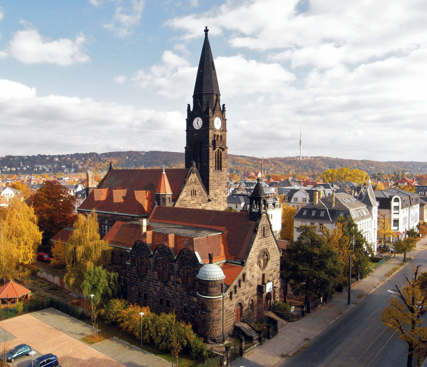 Church "Versöhnungskirche" in Dresden, general view (Saxony, Germany)